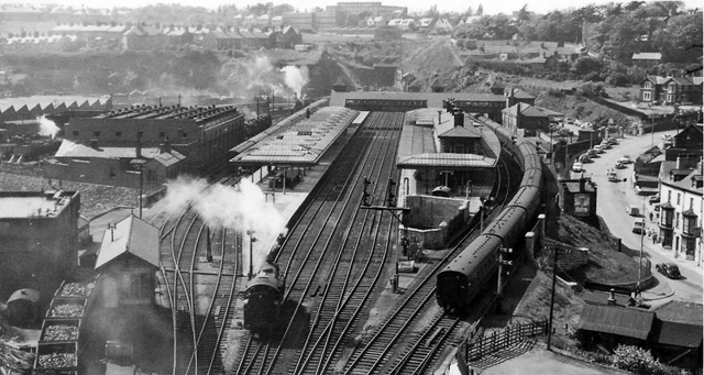 Bangor Station and Locomotive Shed from above East Tunnel. The splendid overall view of the station, locomotive depot etc., looking westward towards Holyhead; Chester - Holyhead main line.